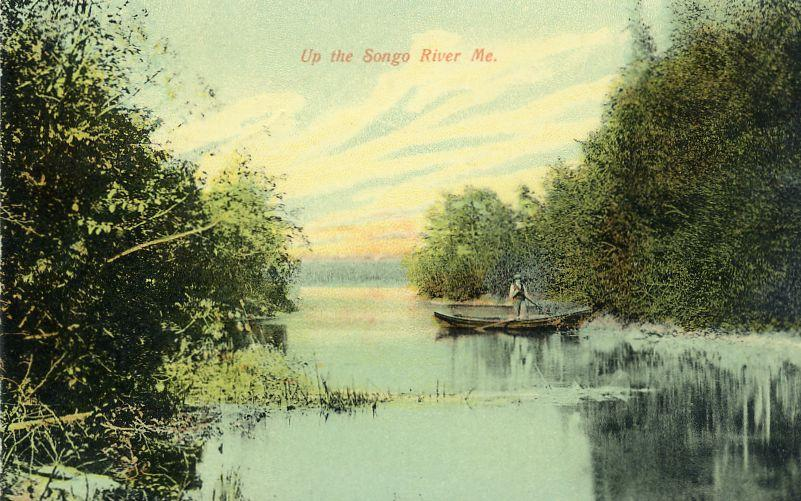 Up the Songo River, ME; from a 1908 postcard.